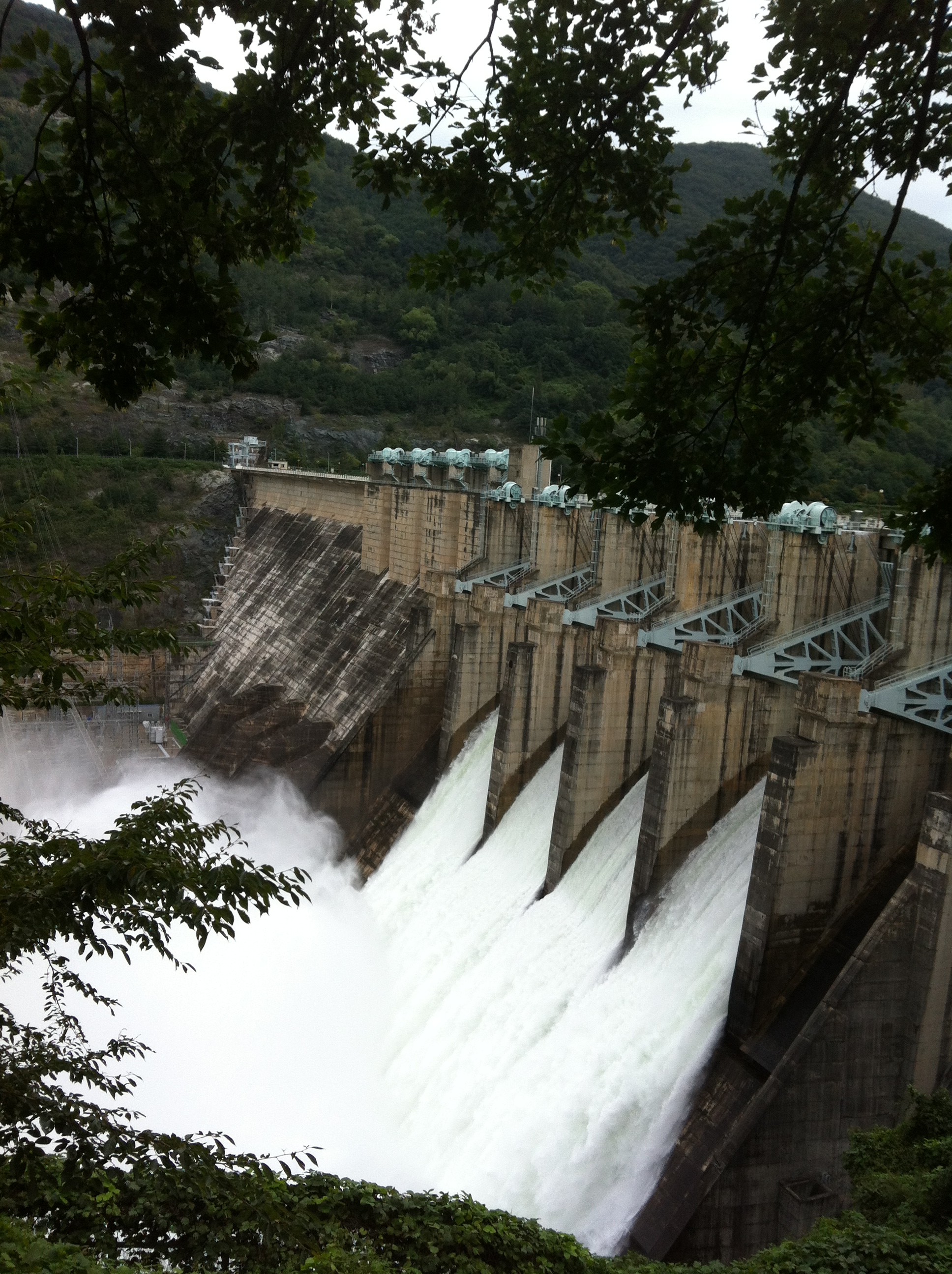 Chungju Dam, Chungju city, Chungcheongbuk-do, South Korea.